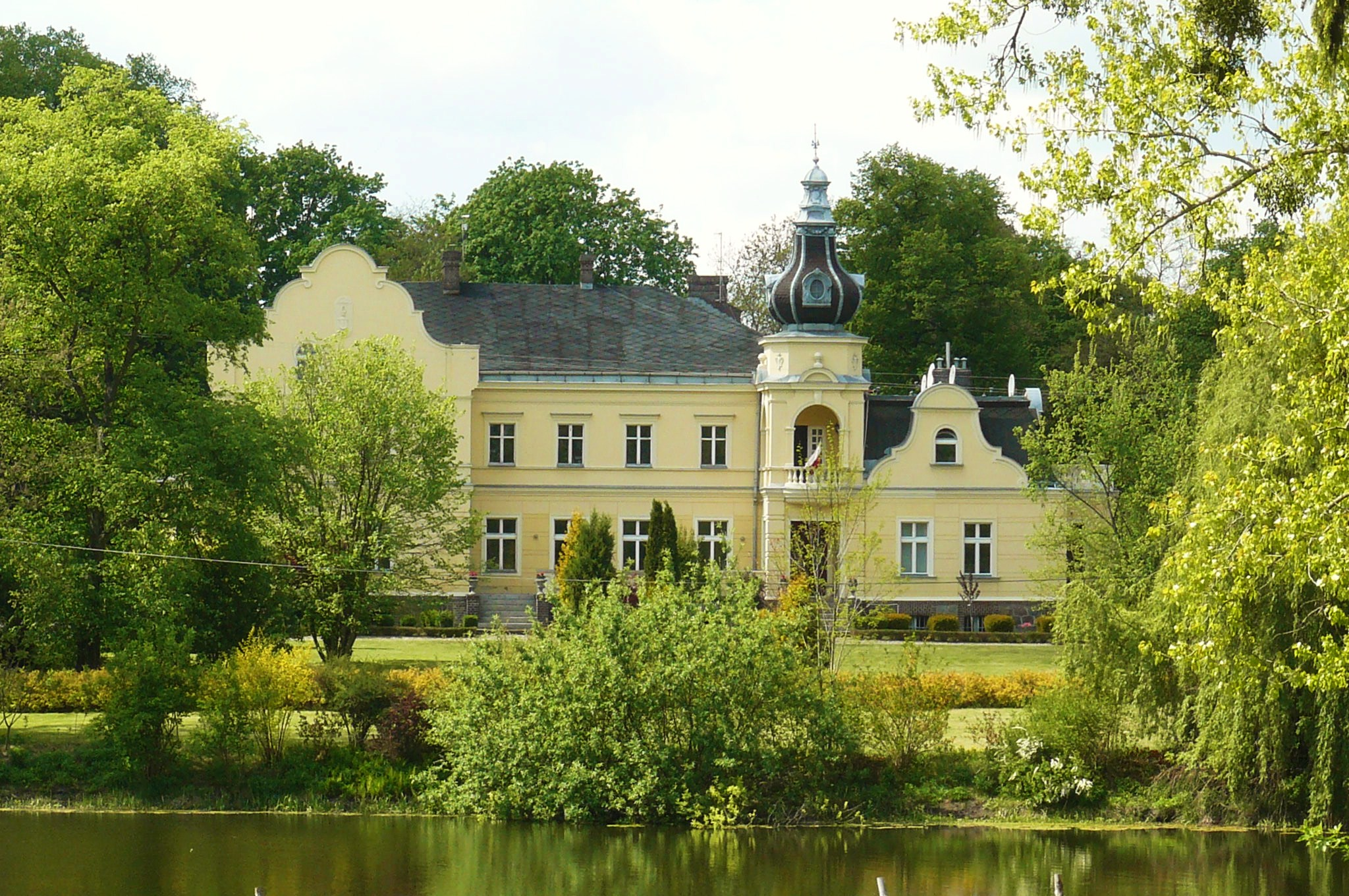 Wargowo. manor house.